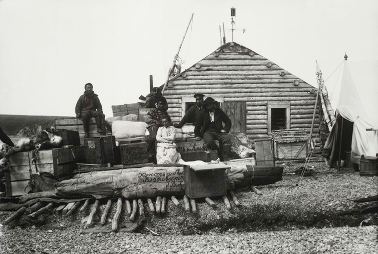 Waldemar & Sofia Bogoras with collection of Jesup North Pacific expedition. Novo-Mariinsk, 1901